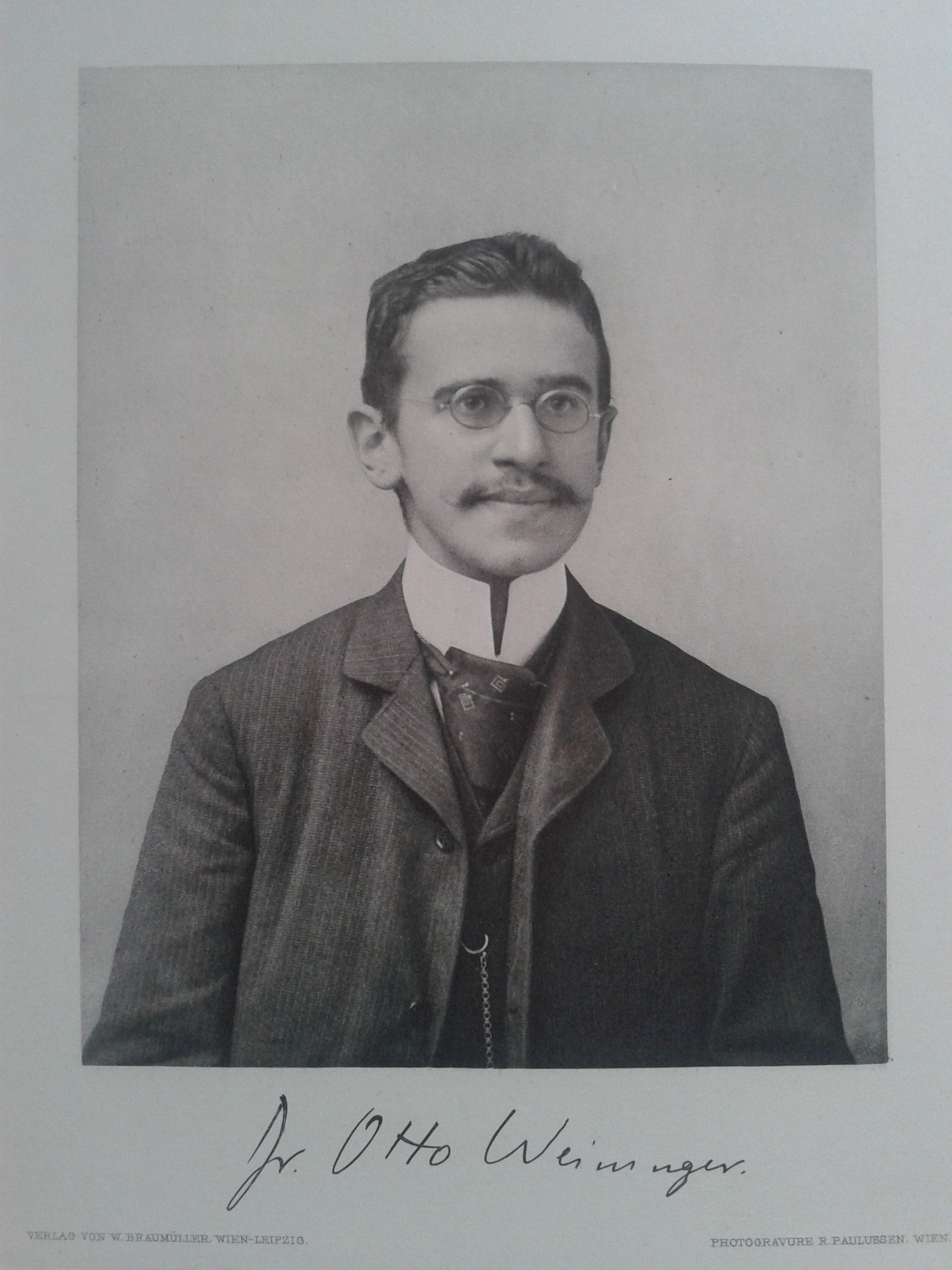 Otto Weininger, Portrait, Photography 1903. Photogravure 1904, Richard Paulussen (1852—1906), Wien.